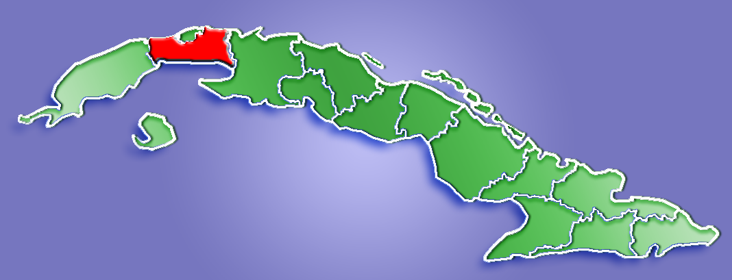 Location of La Habana Province, Cuba